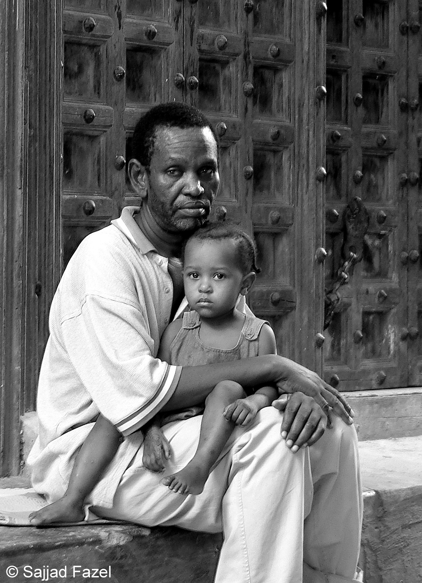 A man sits with his child in front of an engraved door